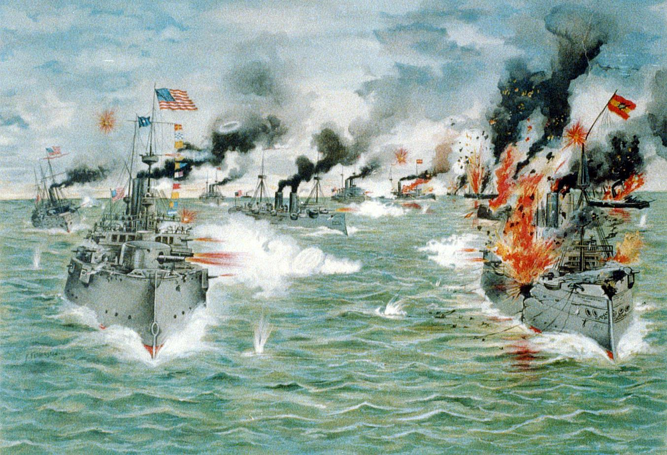 LC-USZC4-701: Spanish-American War, 1898. Battle of Manila Bay, 1 May 1898. “Delivering the Last Broadside.” Courtesy of the Library of Congress. (5/8/2015).